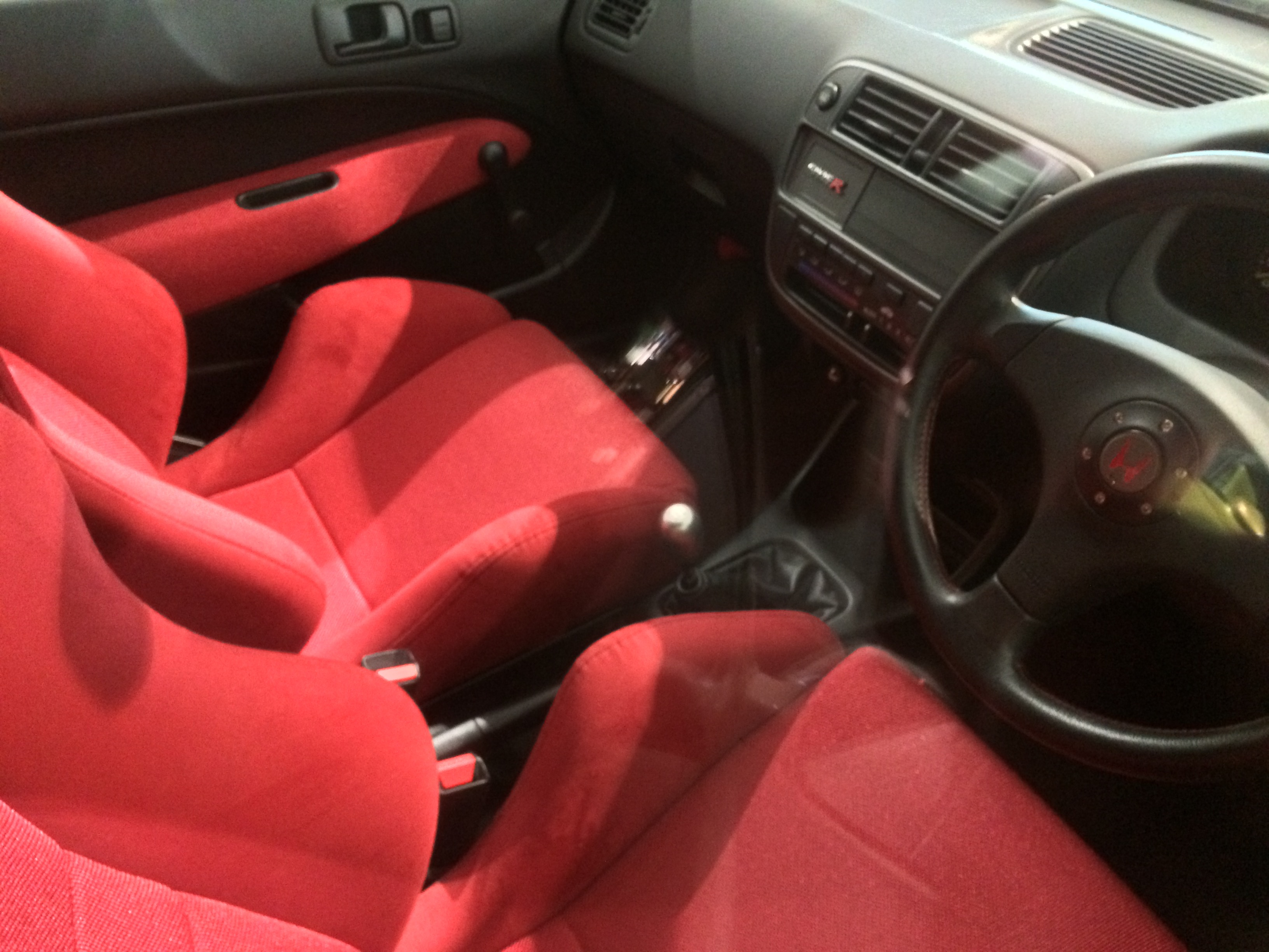 Interior of a Honda Civic Type R, displayed at the Honda Collection museum in Japan.